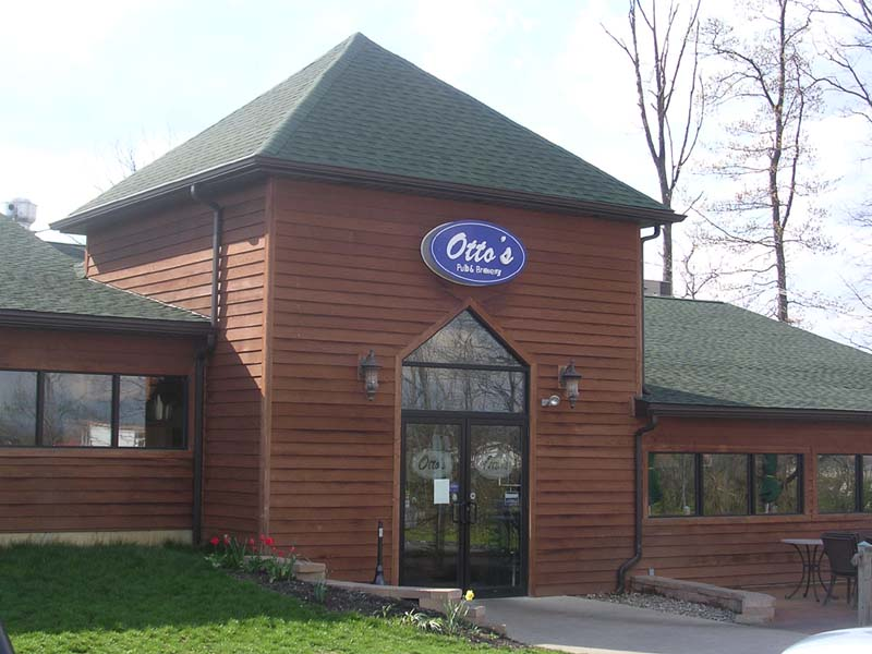 Picture of Otto's Pub & Brewery.